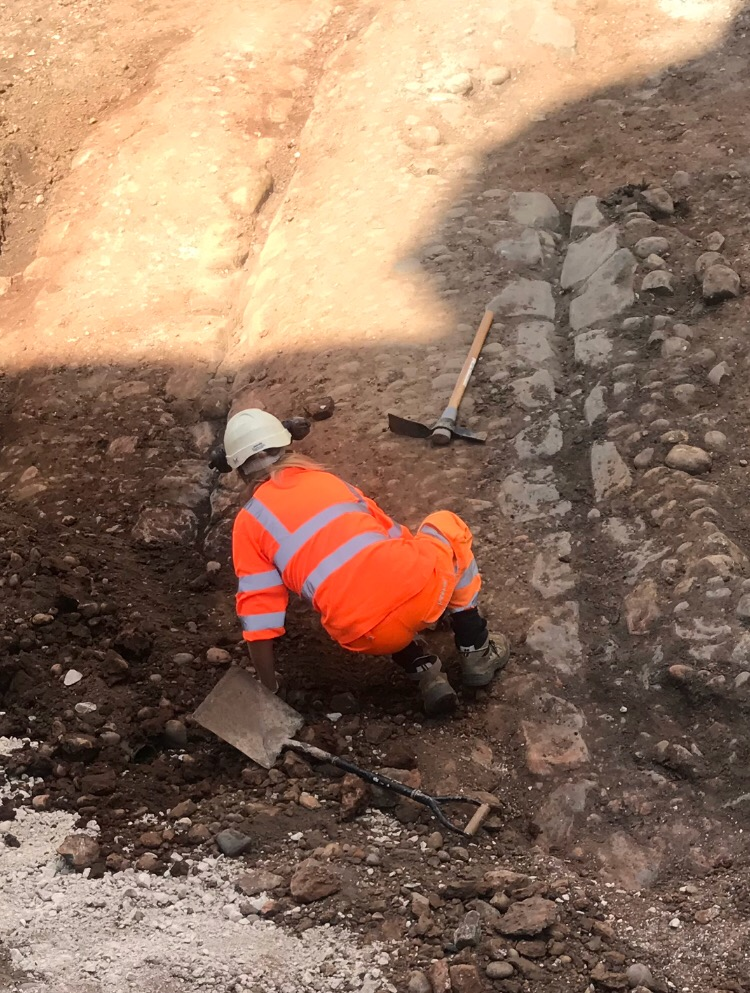 An Archaeologist unearths a cobblestone road in Birmingham City Centre (Victoria Square). Date uncertain, looks Mediaeval